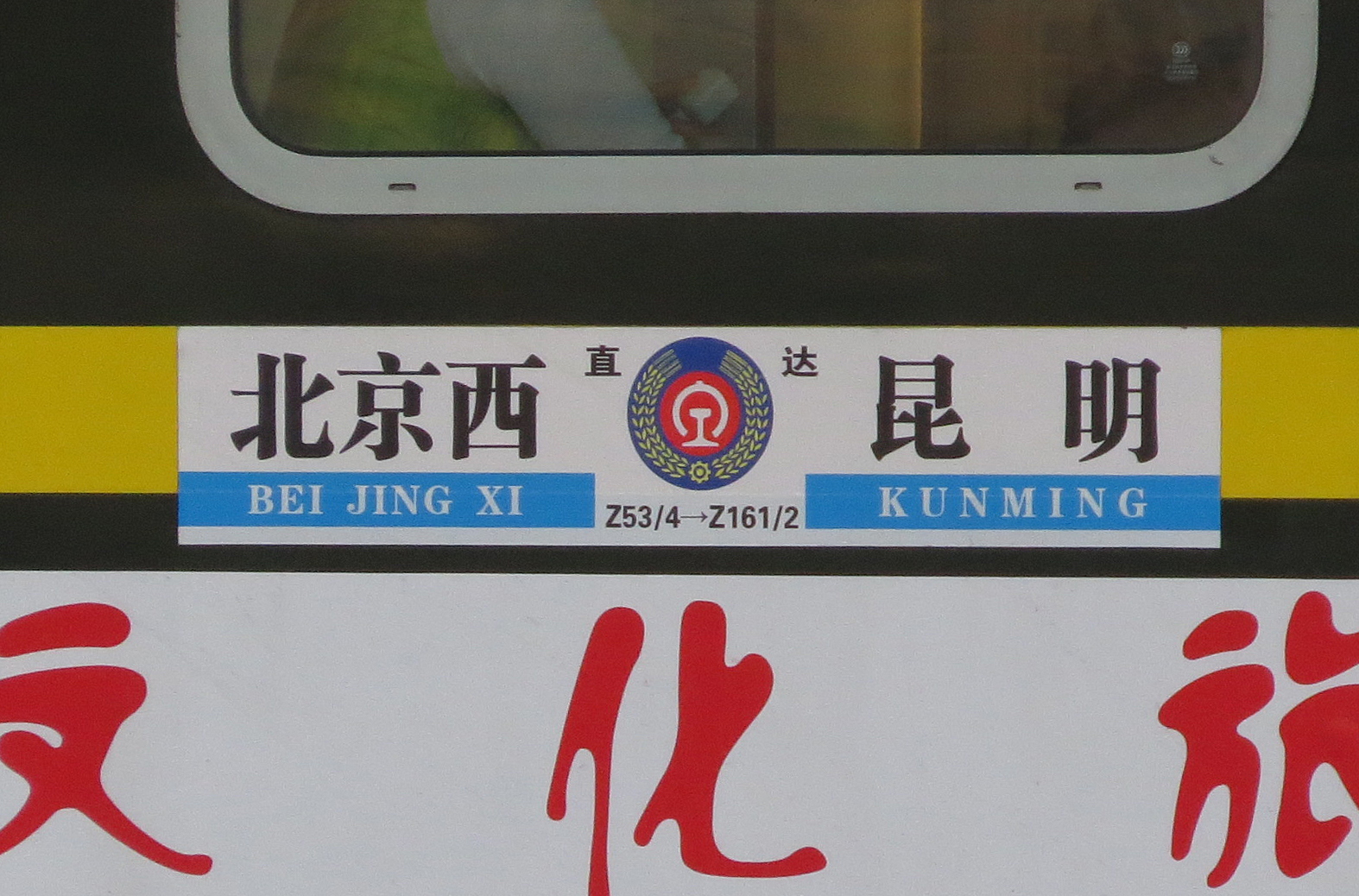 Now a complicated run.